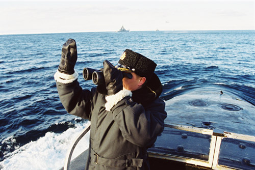 THE BARENTS SEA. Watching a military exercise of the Northern Fleet from the nuclear missile submarine Karelia.